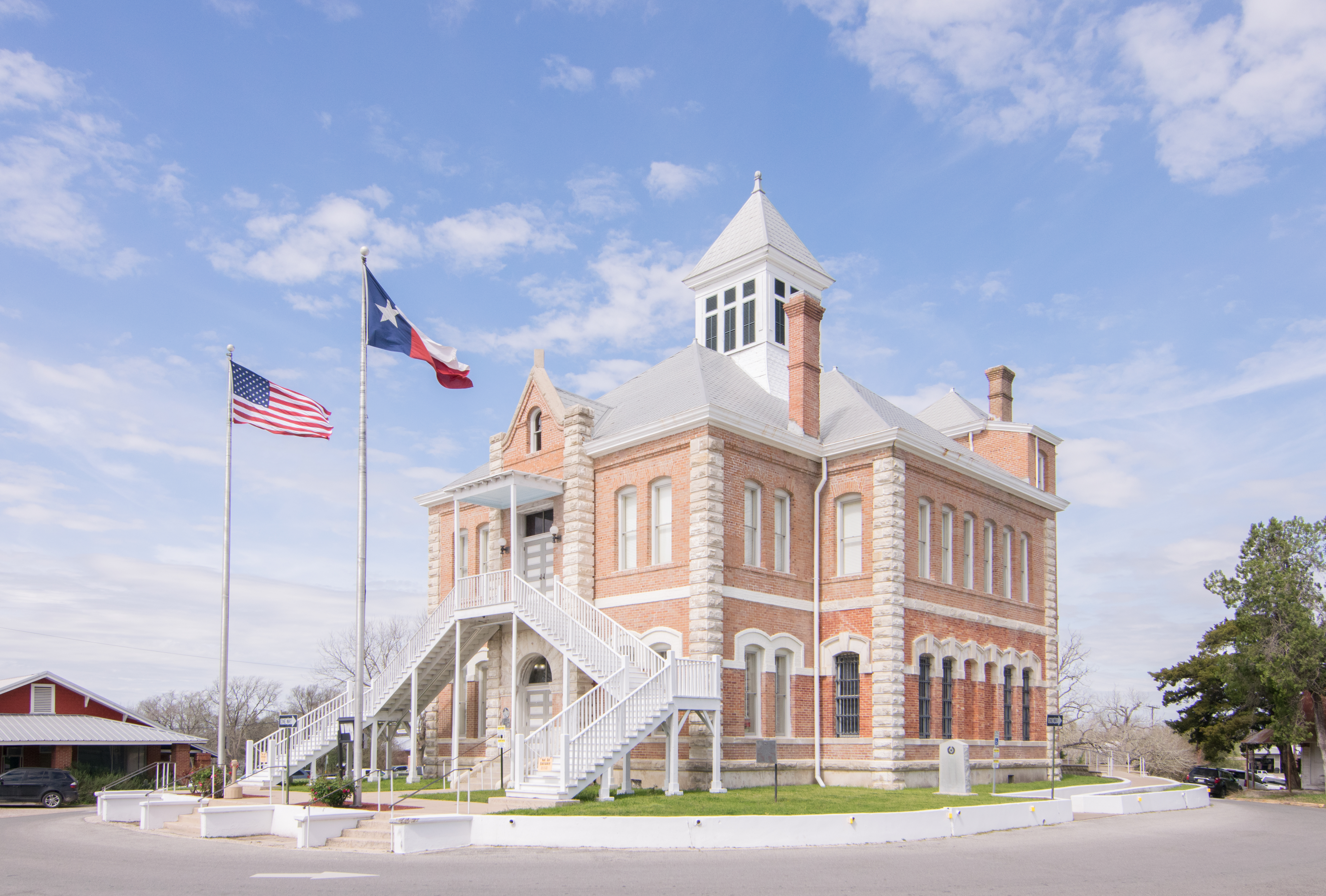 Southeast corner